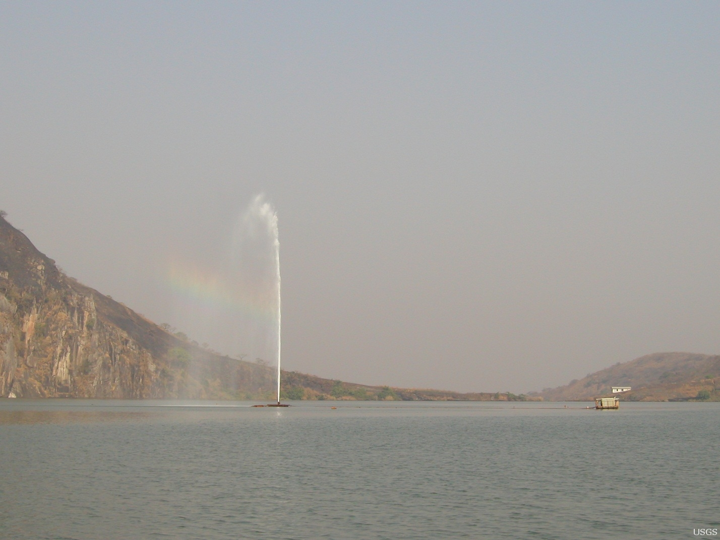 Artificial carbon dioxide vent in Lake Nyos, Cameroon. 2006. In 1986, Lake Nyos, in the volcanic region of Cameroon, released a cloud of CO2 into the atmosphere, killing 1,700 people and 3,500 livestock in nearby towns and villages. Afterwards, engineers installed a pipe system to vent the gas from the lake. This photo shows the Lake Nyos pipe in operation. The 200-meter-long pipe is suspended from the raft and allows gas-rich water from the lake bottom to vent to the surface, where the CO2 dissipates into the atmosphere at a controlled rate. The shed on the control raft is about 6 feet tall and the fountain is about 120 feet tall. There are no pumps involved because the CO2 drives the fountain, just like a shaken bottle of champagne.